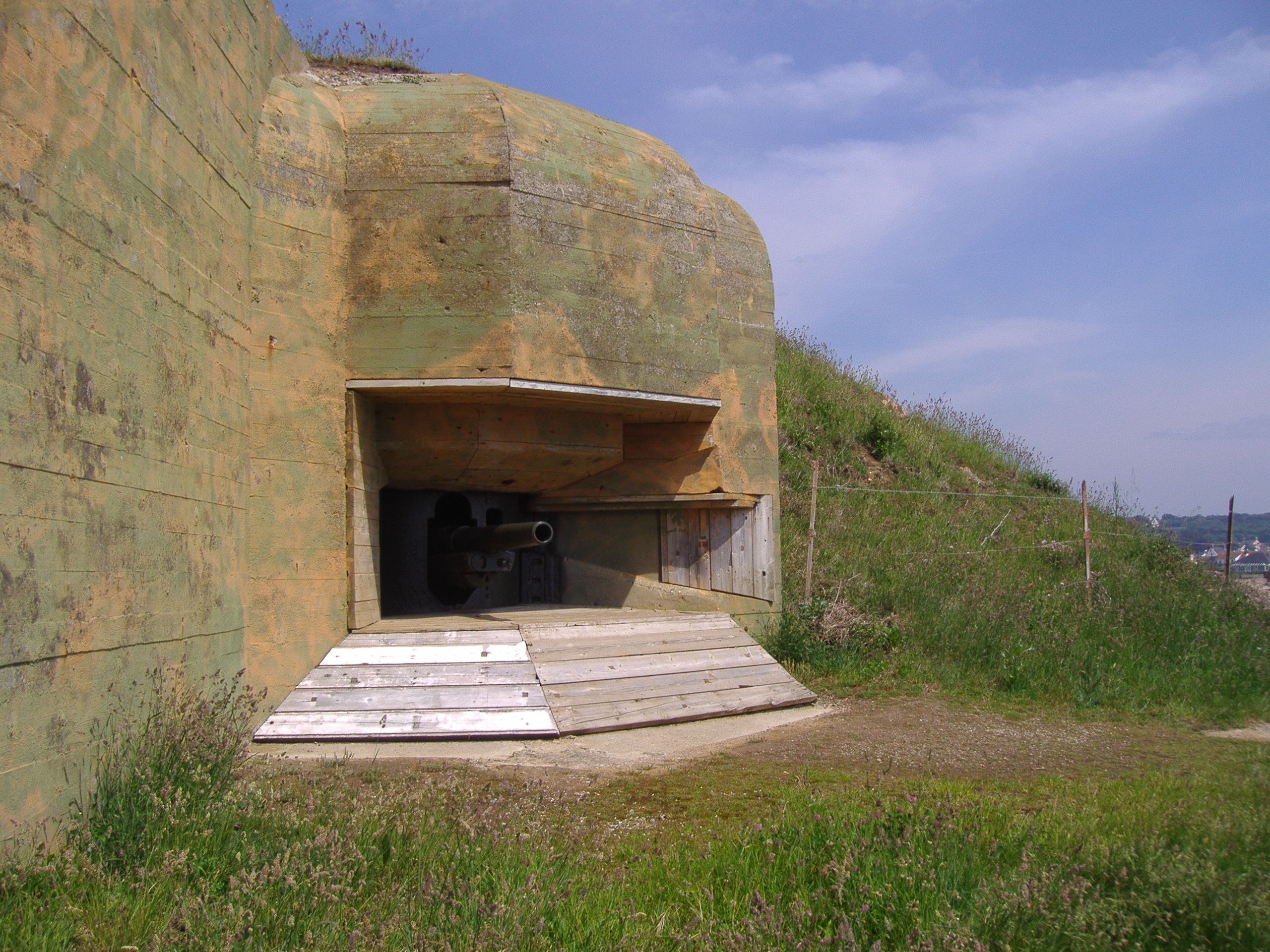 10.5cm Coast Defence Gun Casemate on the west coast of the island of Guernsey, Fort Hommet.